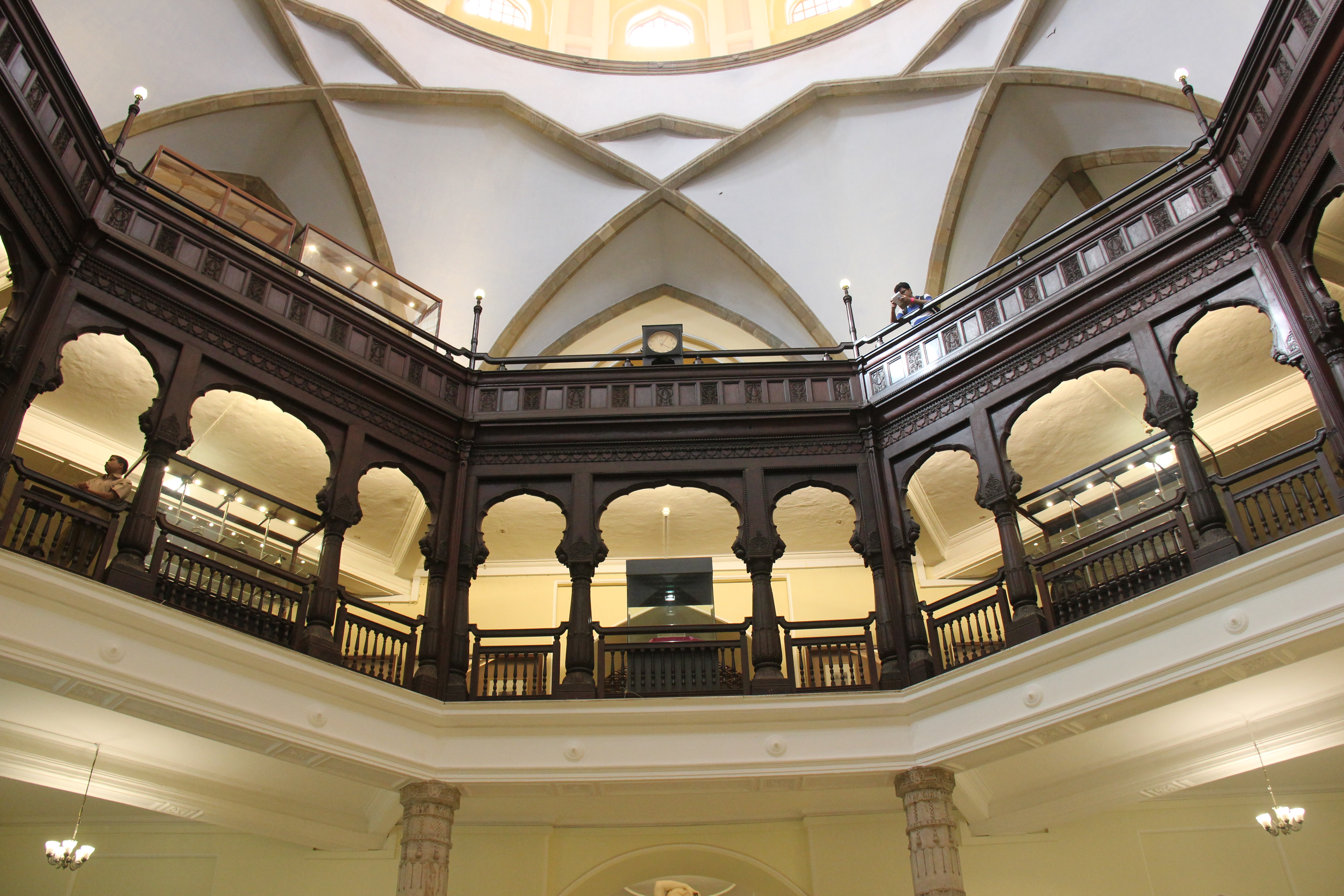 Main Lobby of The Prince of Wales Museum